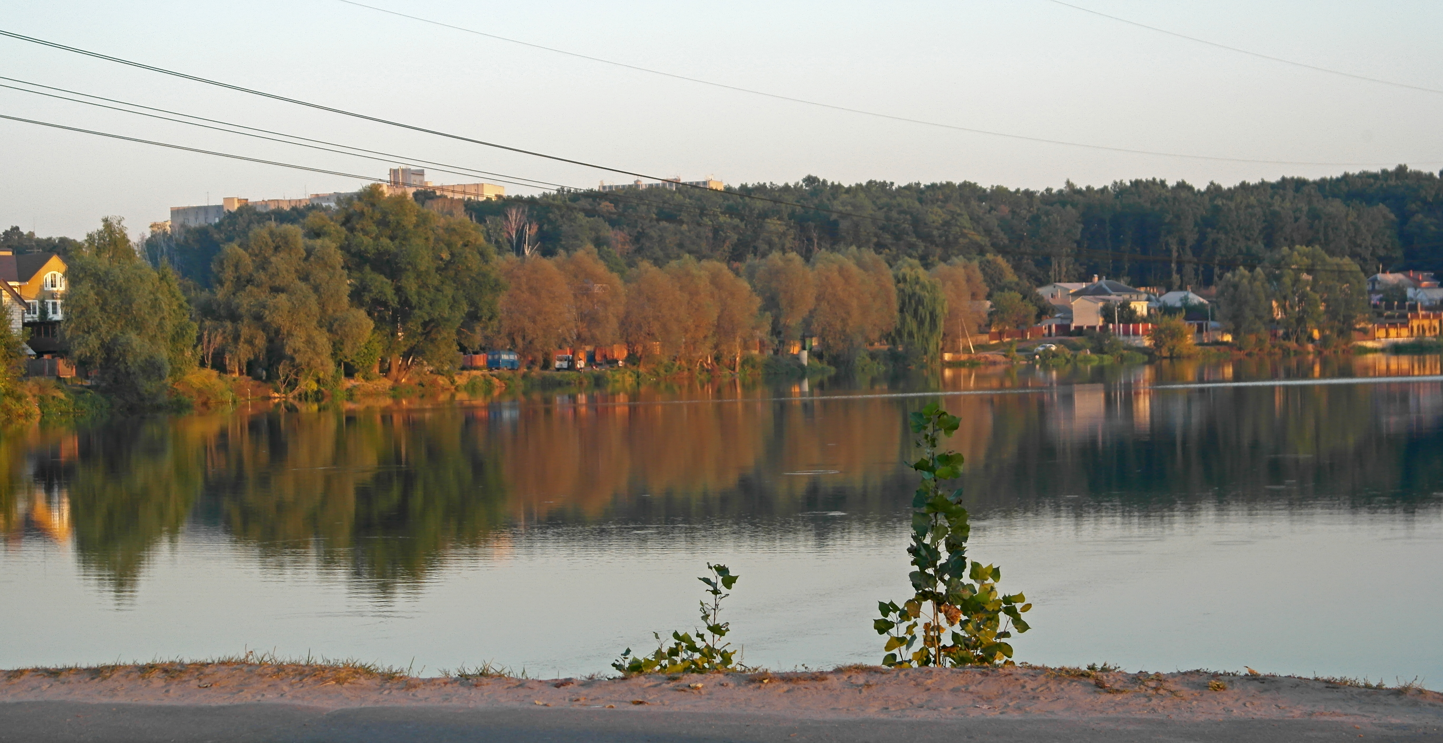 Ставок на річці Нивка, Петропавлівська Борщагівка